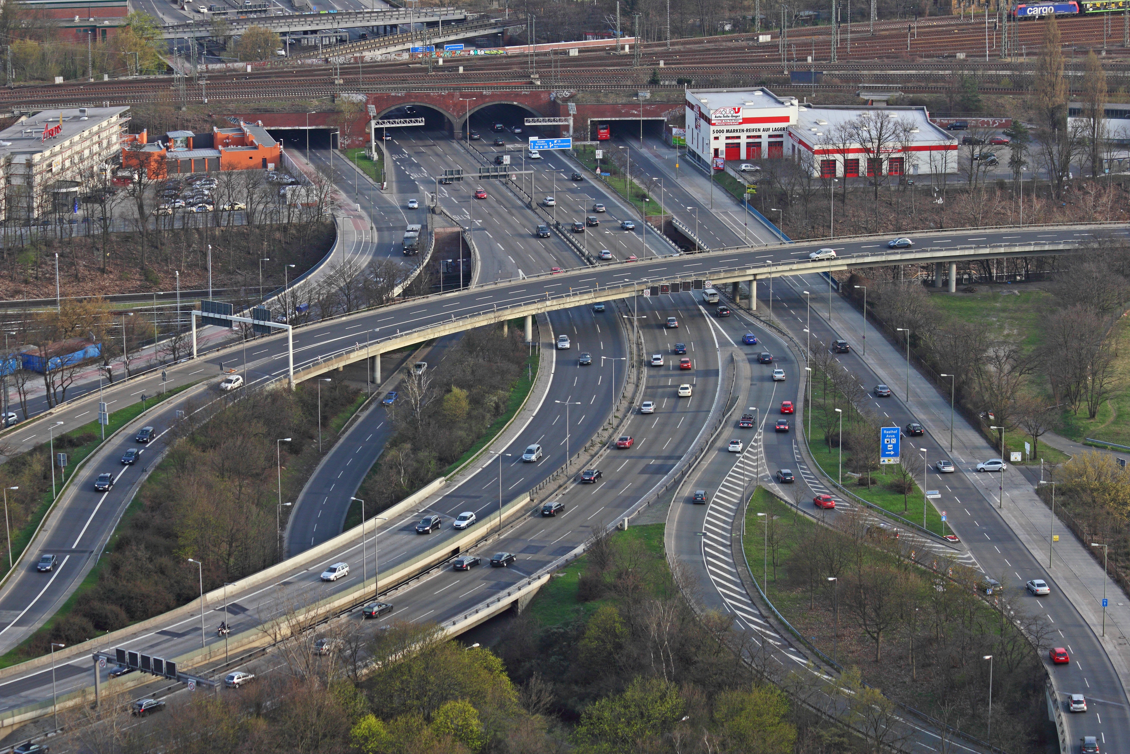 Berlin views from Radio Tower at the Trade Fair.